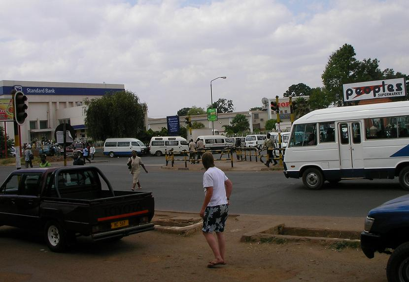 The Nico Centre is just to the right of this photo taken in Malawi's capital city, Lilongwe. Also outside the photo is a National Bank, 90 degrees to the left of the camera (which is pointing northeast). The red "OP" letters of the SHOPRITE store, which is about 100 meters away, are visible in the centre-right of the photo. Altimeter indication 1045 meters.